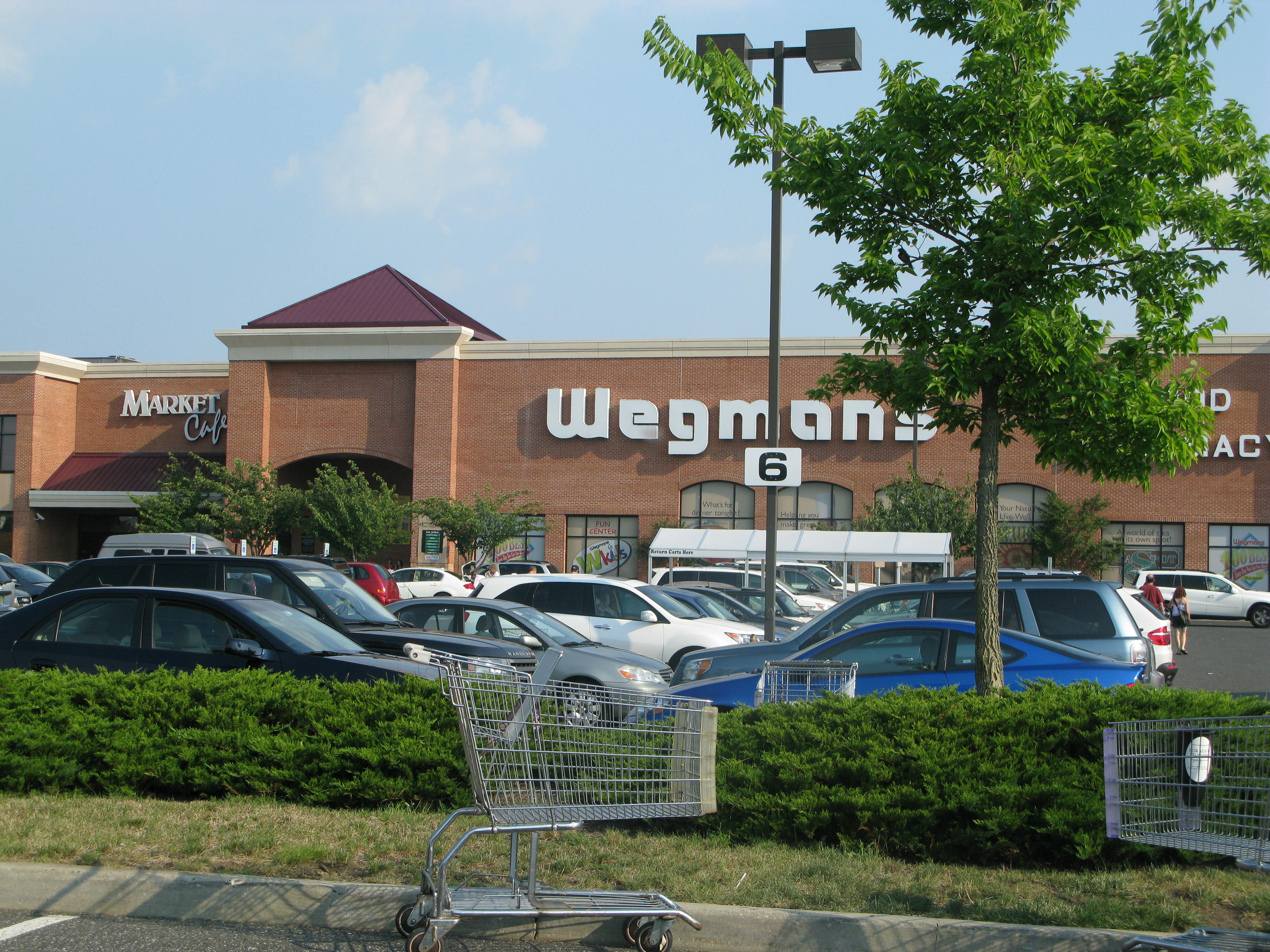 A Wegman's store in Manalapan, NJ.